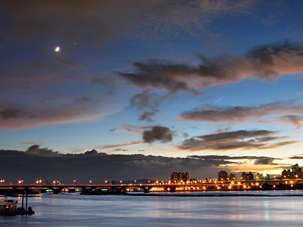 Venus and moon, sunset scene of Dan-Shuei river in Taipei, Taiwan.